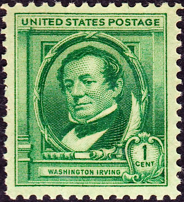 U.S. Postage stamp, Washington Irving commemorative issue of 1940.